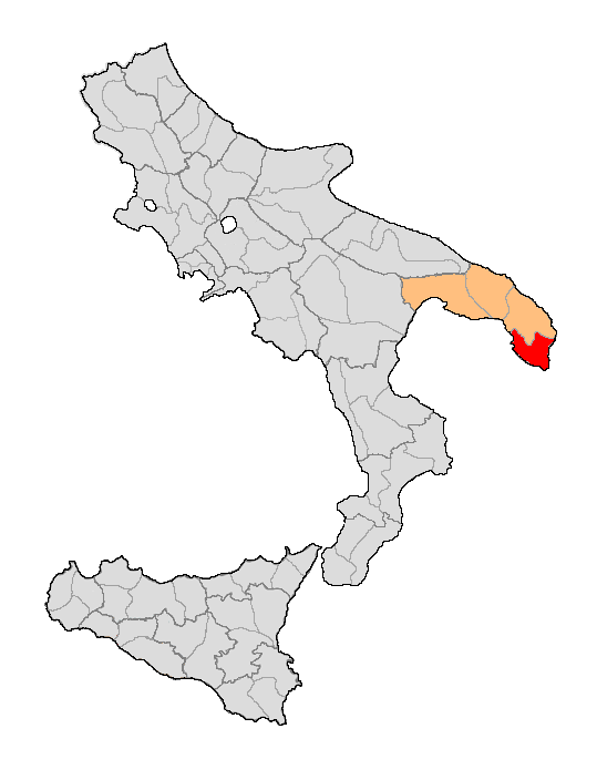 Locator map of Distretto di Gallipoli